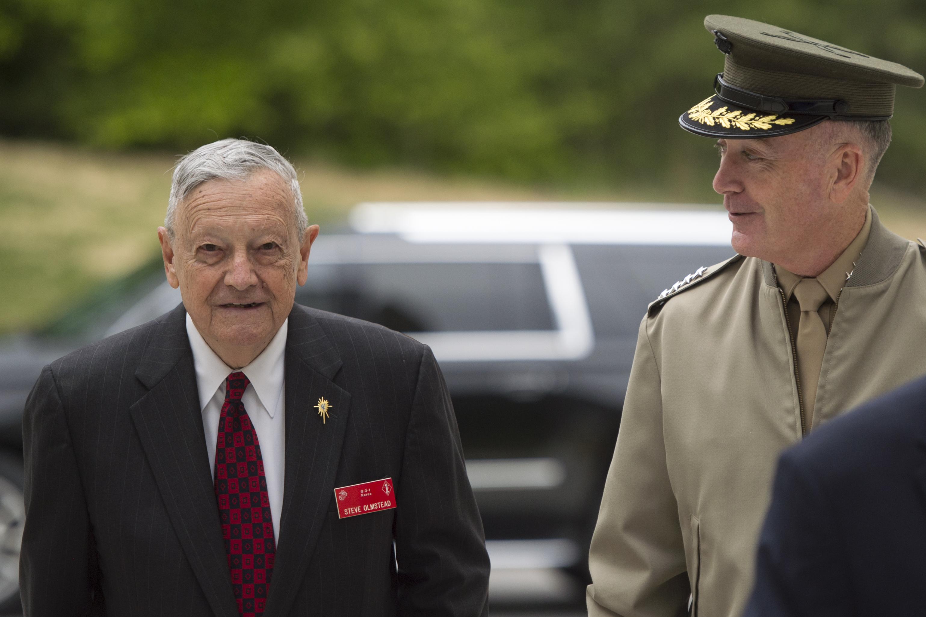 Marine Corps Gen. Joseph F. Dunford Jr., chairman of the Joint Chiefs of Staff, serves as the guest speaker for Chosin Few Memorial Dedication Ceremony at the National Museum of the Marine Corps May 4, 2017. (Dept. of Defense photo by Navy Petty Officer 2nd Class Dominique A. Pineiro/Released)